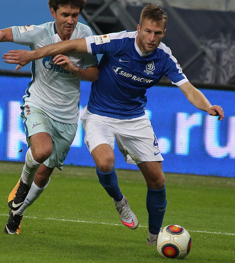 Oleg Babenkov (right) with FC Dynamo Saint Petersburg in a Russian Cup game against FC Zenit Saint Petersburg.